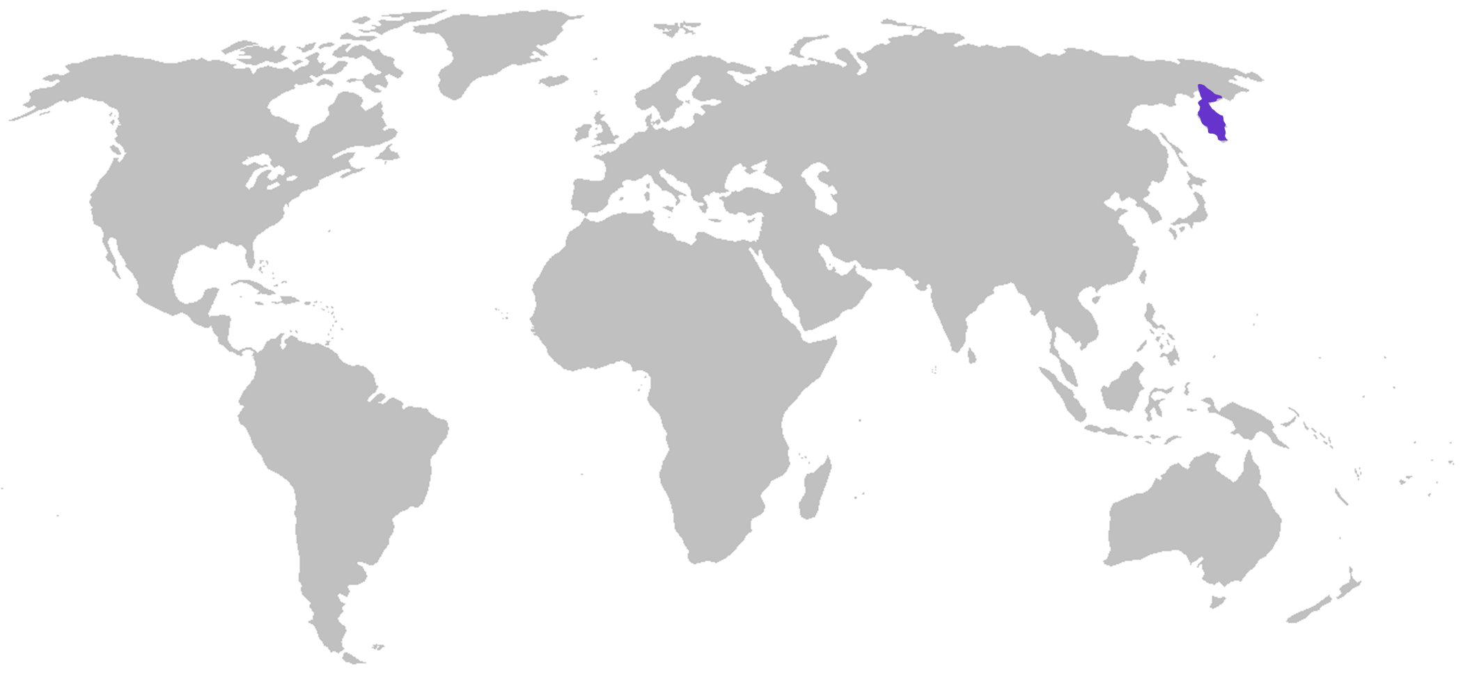 Kamchatka Brown Bear range map.